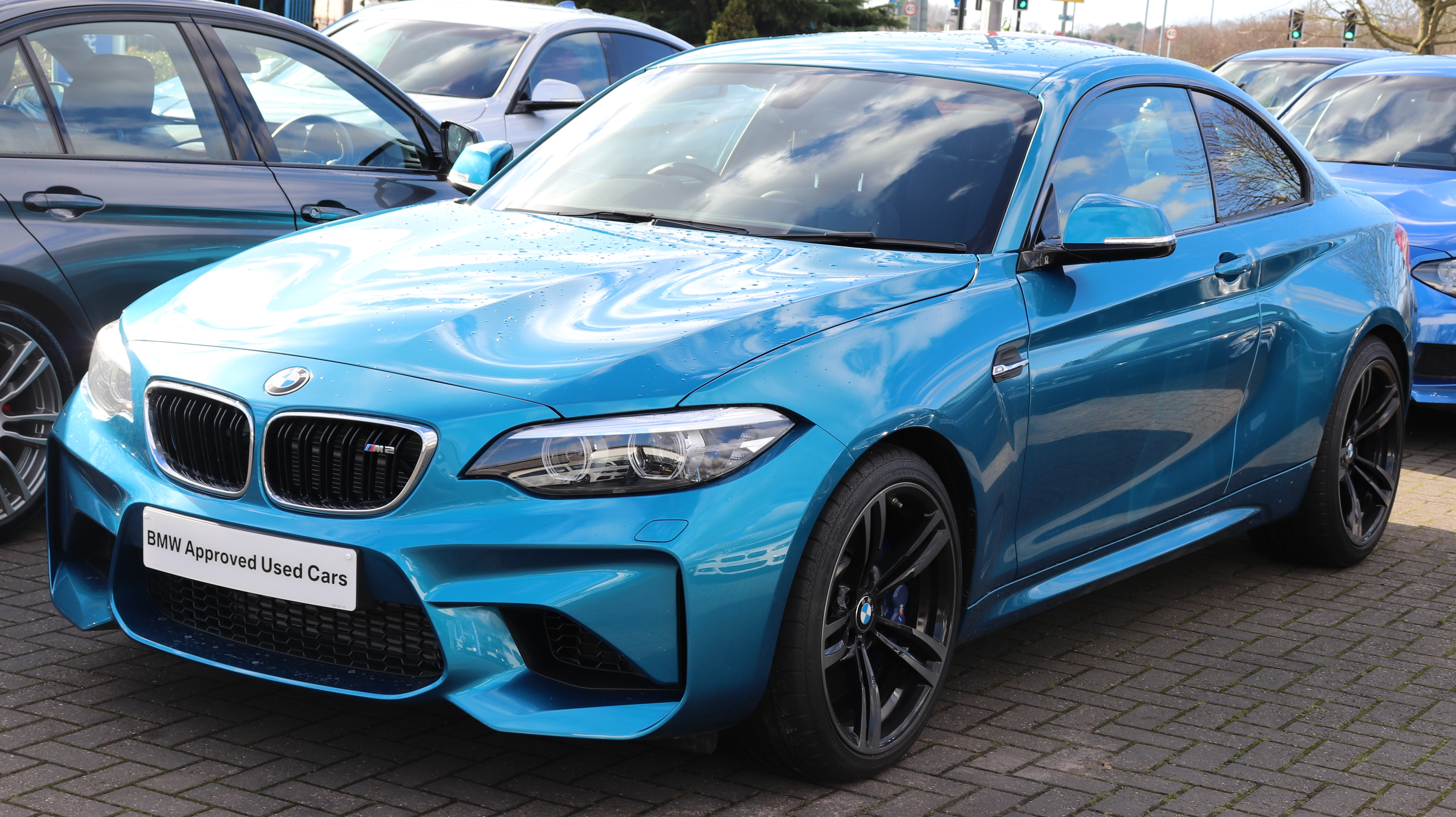 2017 BMW M2 Automatic 3.0 Front Taken in Leamington Spa